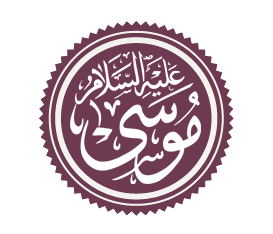 The calligraphic logo of Prophet Musa (Moses) without background.